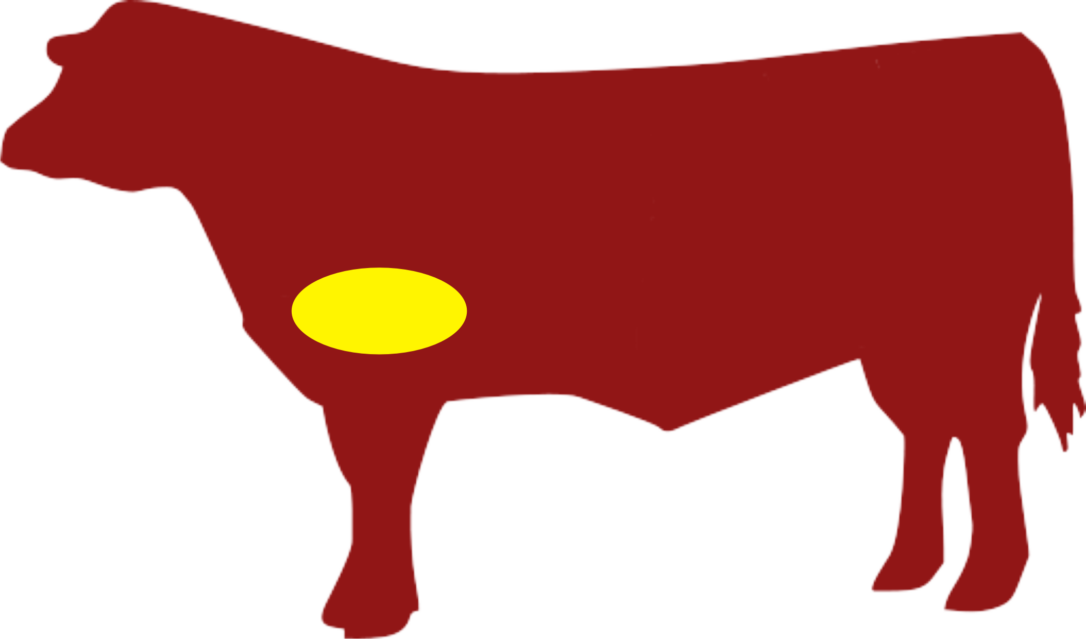 The cut of veal sweetbreads